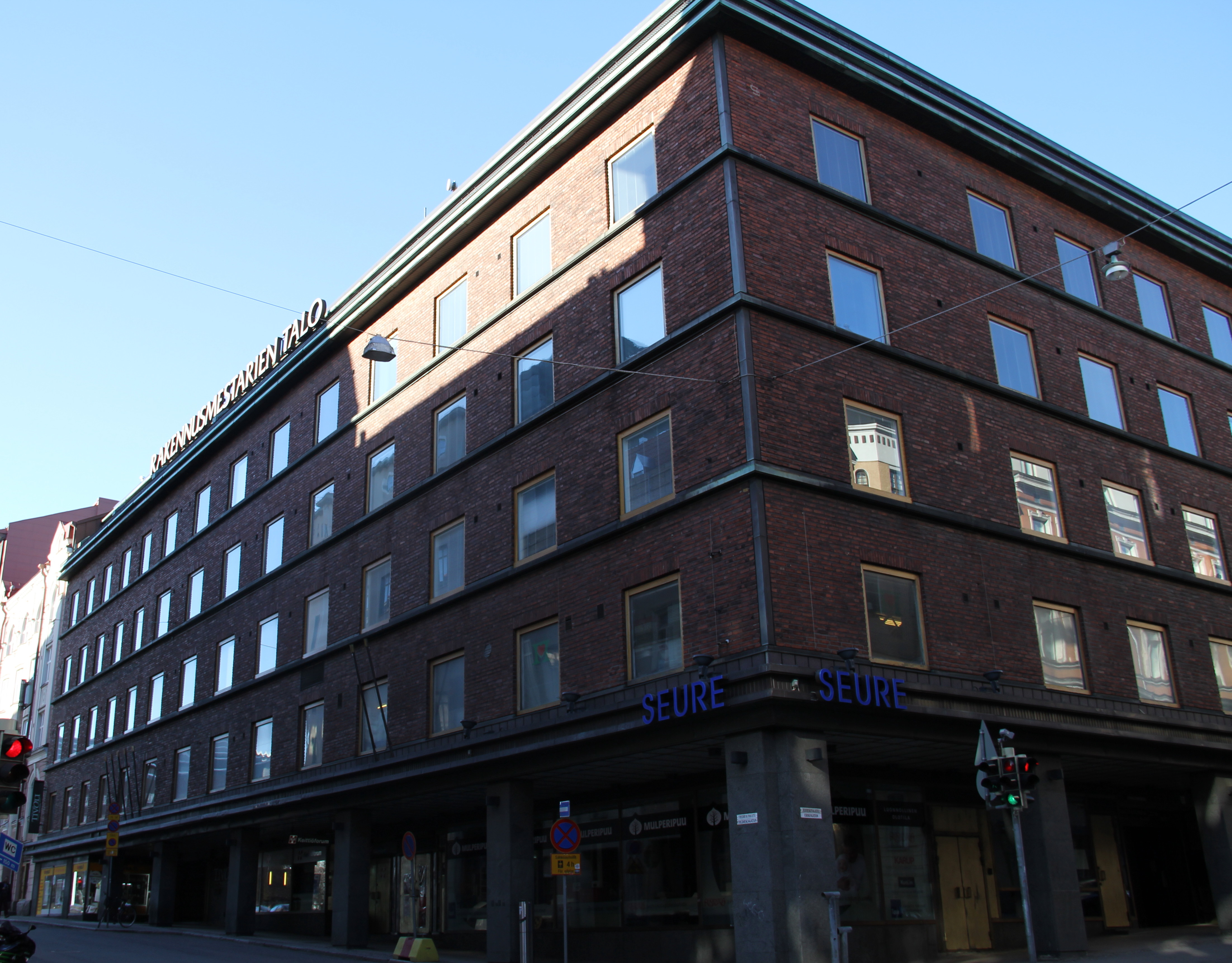 Rakennusmestarien talo, a Master builder's association's building in Fredrikinkatu, Helsinki, Finland. Completed in 1932, designed by Heikki Kaartinen.